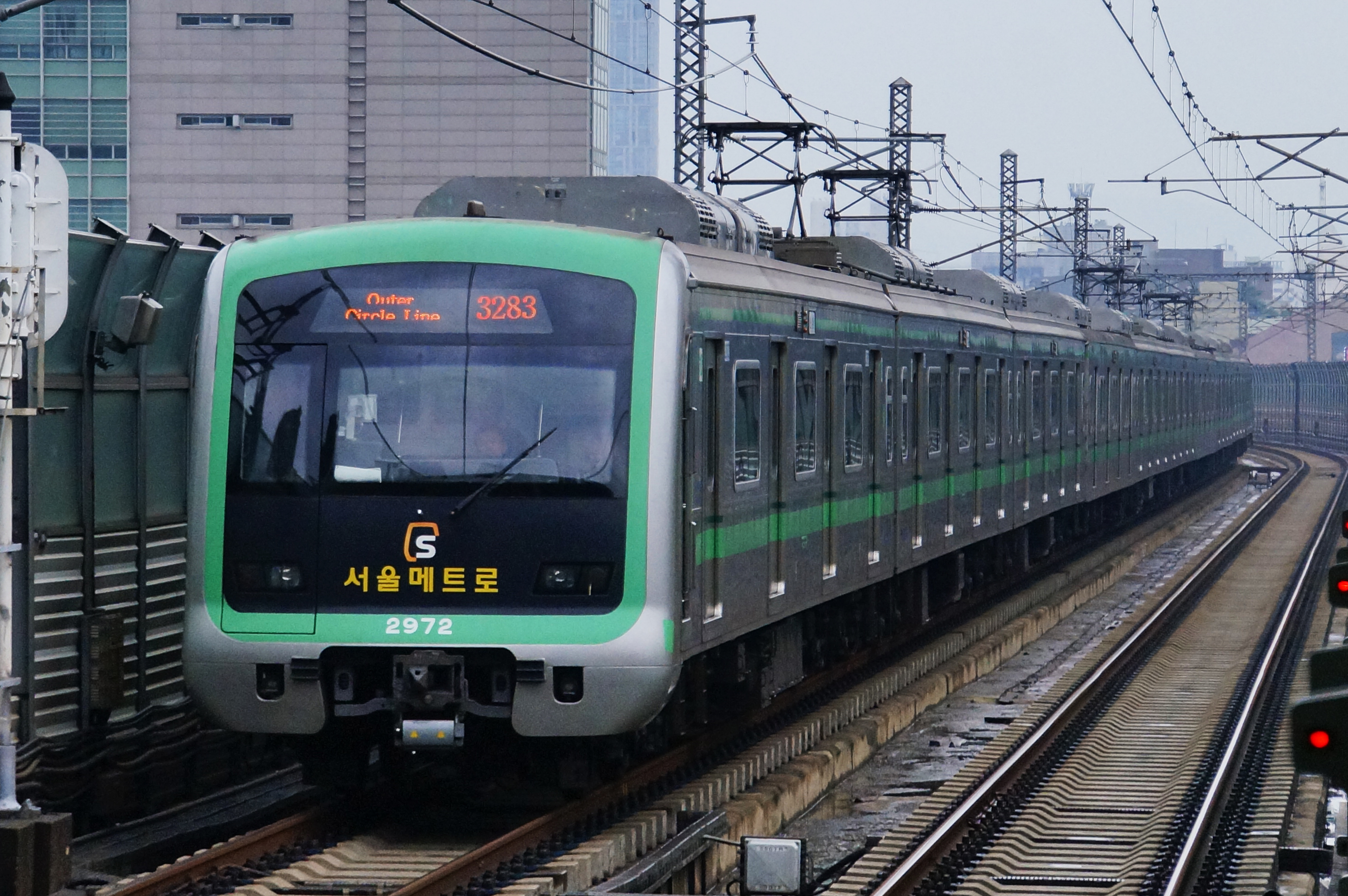 Seoul Metro Line 2 Outer Circle Line train of Seoul Metro 2000-series (VVVF trainset 2x72) arriving at Konkuk Univ.